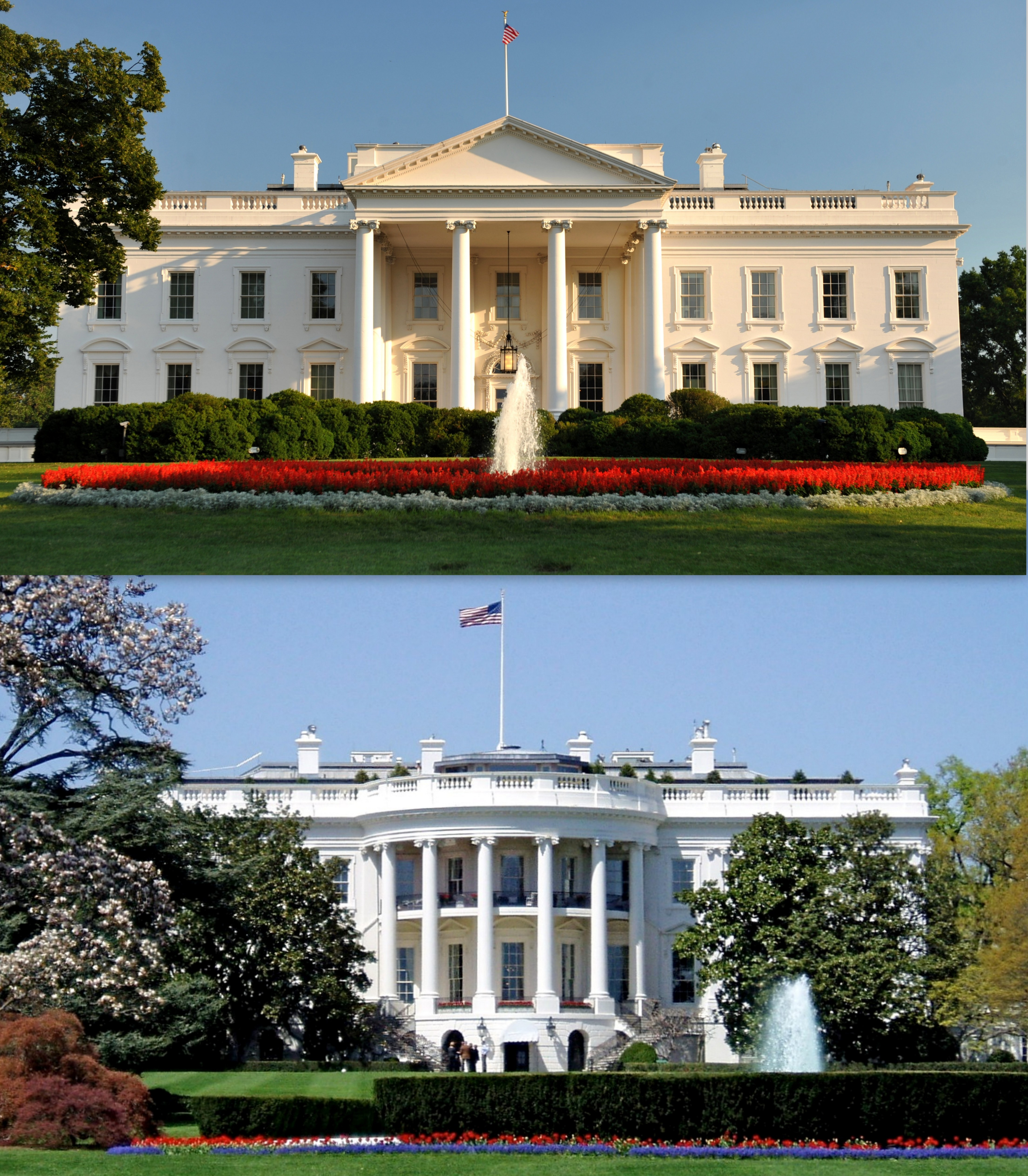 The north (top) and south (bottom) sides of the White House in Washington, D.C.